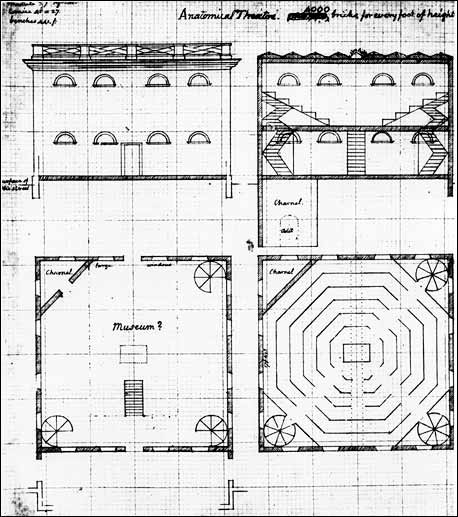 University of Virginia: Thomas Jefferson's study for the Anatomical Theatre, c. February 1825.